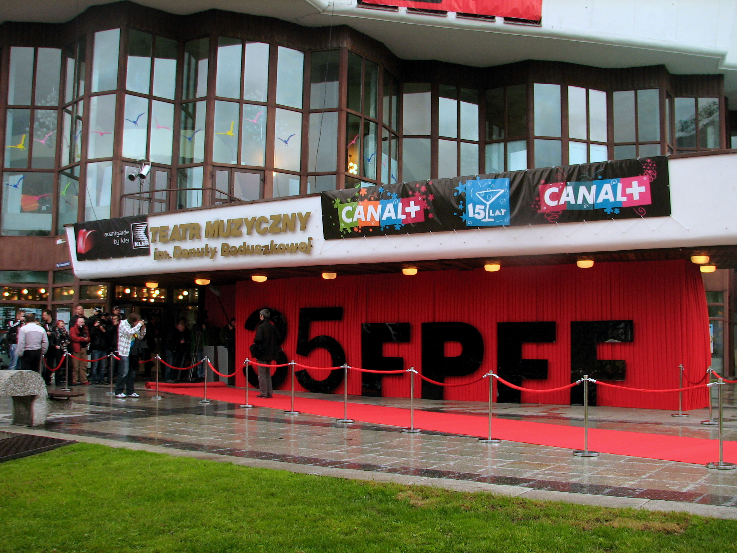 Preparing for opening of the XXXV Polish Film Festival in Gdynia 2010.